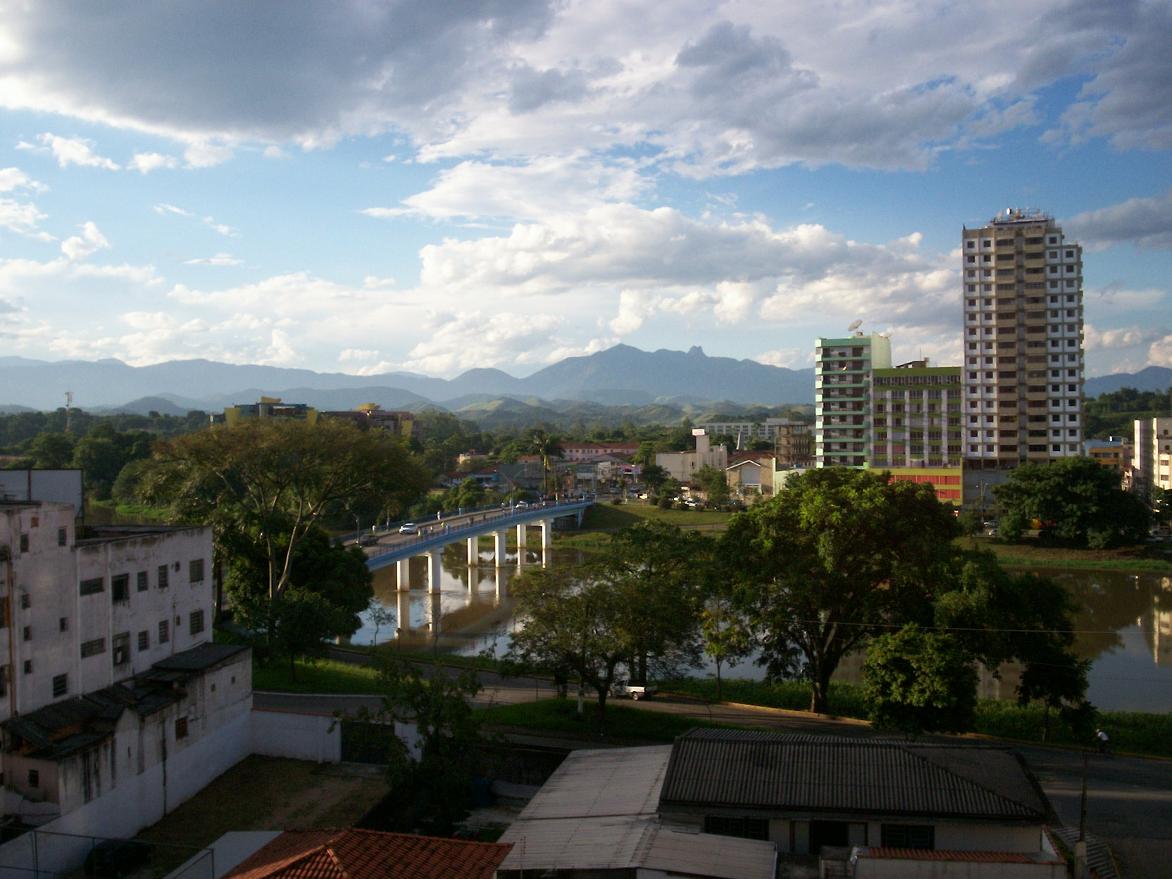 City of Resende, Rio de Janeiro, Brasil